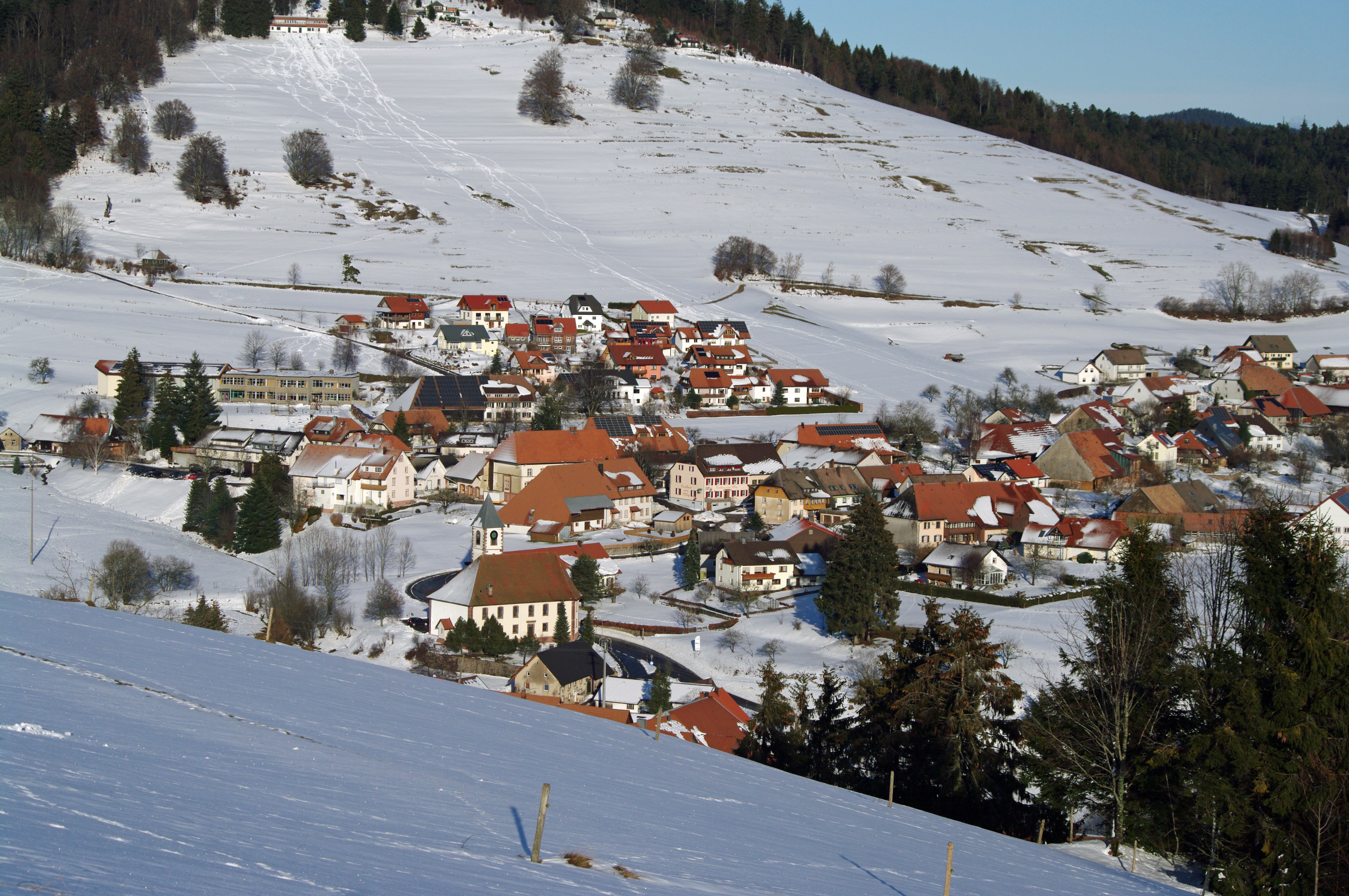 Winter in Gersbach, town of Schopfheim, Black Forest, Baden-Württemberg